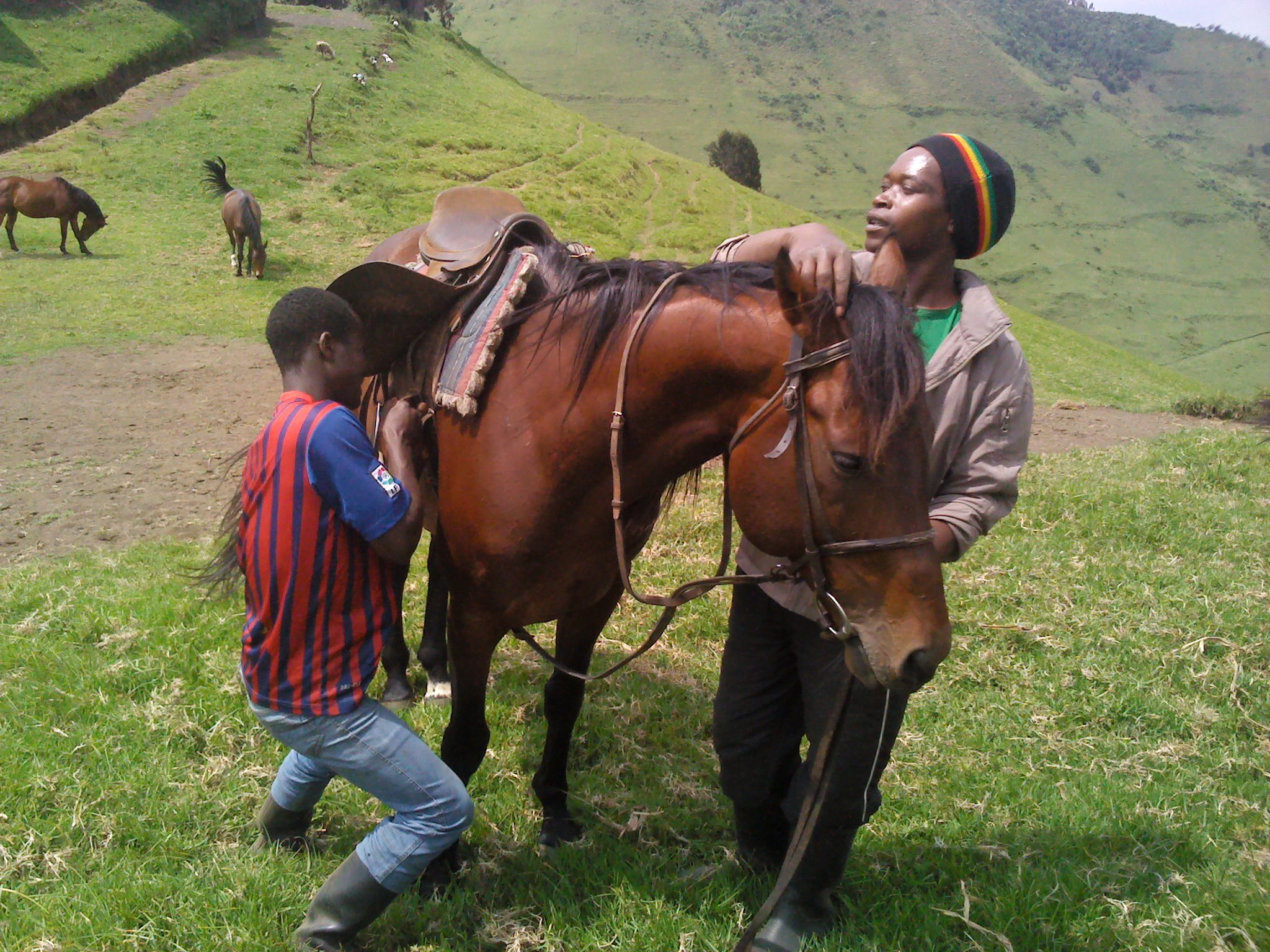 Men looking after horses in Goma DRC...2 This is an image of "African people at work" from Democratic Republic of the Congo